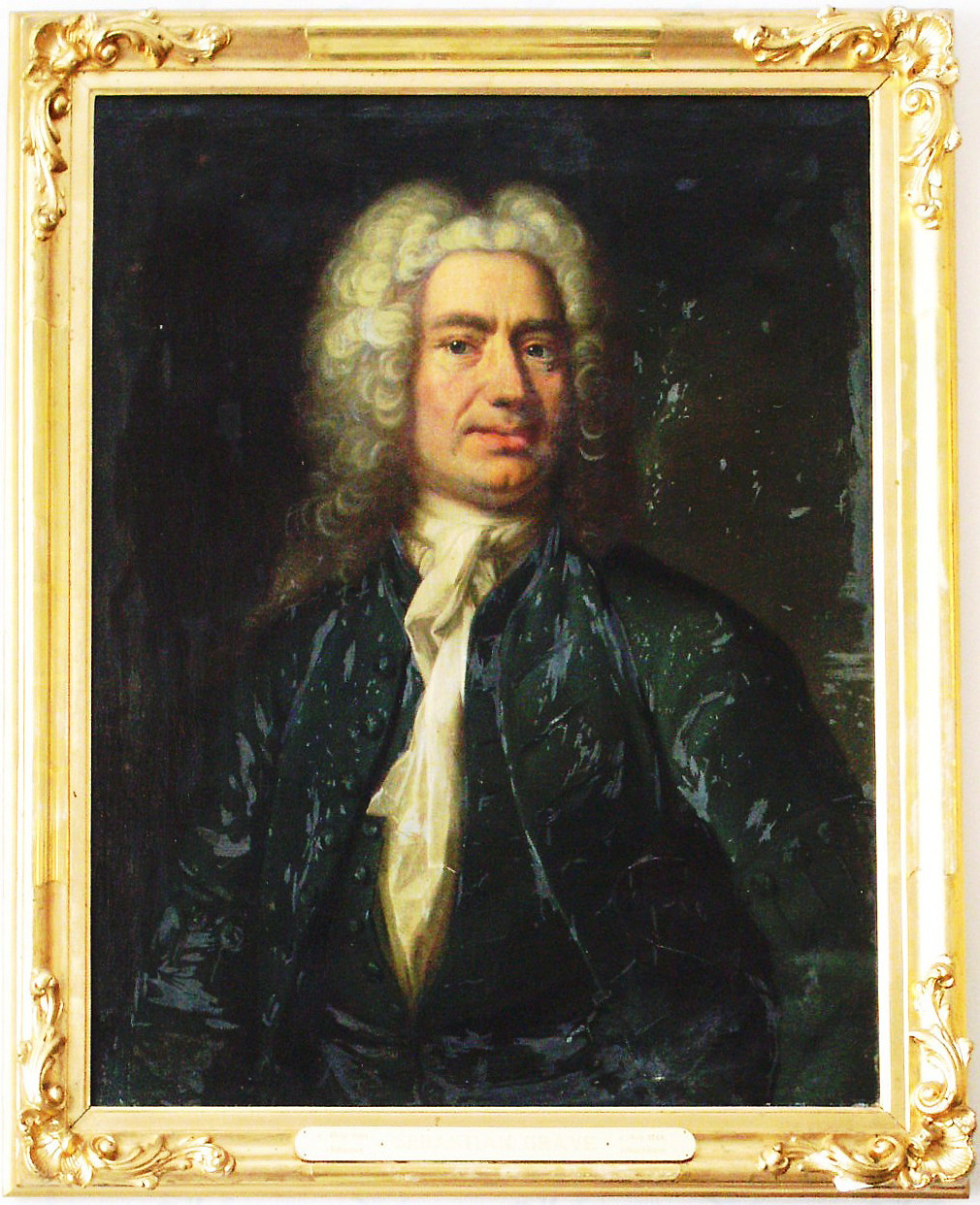 Portrait of Sebastian Grave